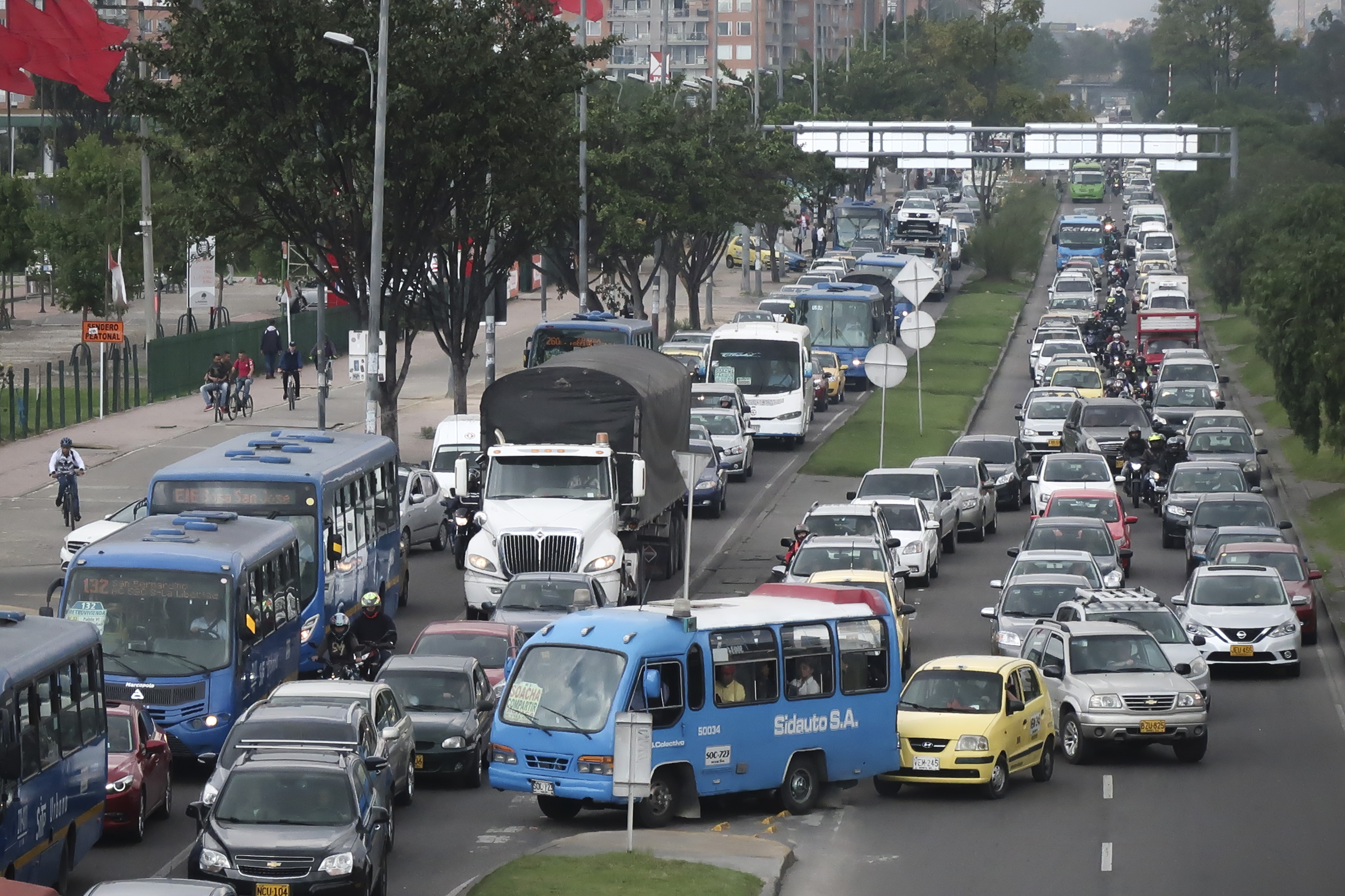 Traffic jam in Bogotá, Colombia